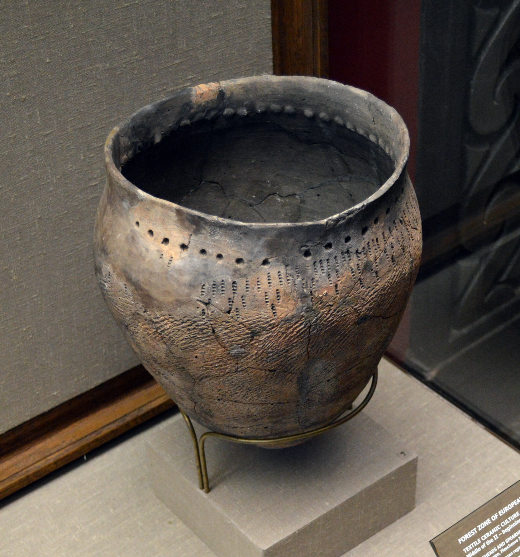 Forest zone of european part of Russia. Textile ceramic culture. Middle of the 2 - beginning of the 1 mill. BC. Vessel. Clay. Ryazan region, Shagara 1 site.